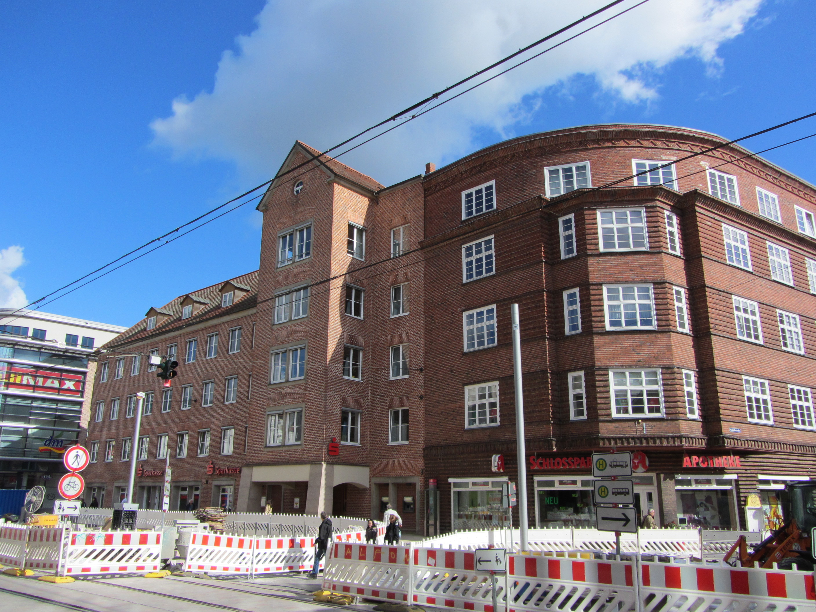 Building of the Sparkasse (bank) Marienplatz 8/9, Constructions on the Marienplatz in Schwerin, Mecklenburg-Vorpommern, Germany